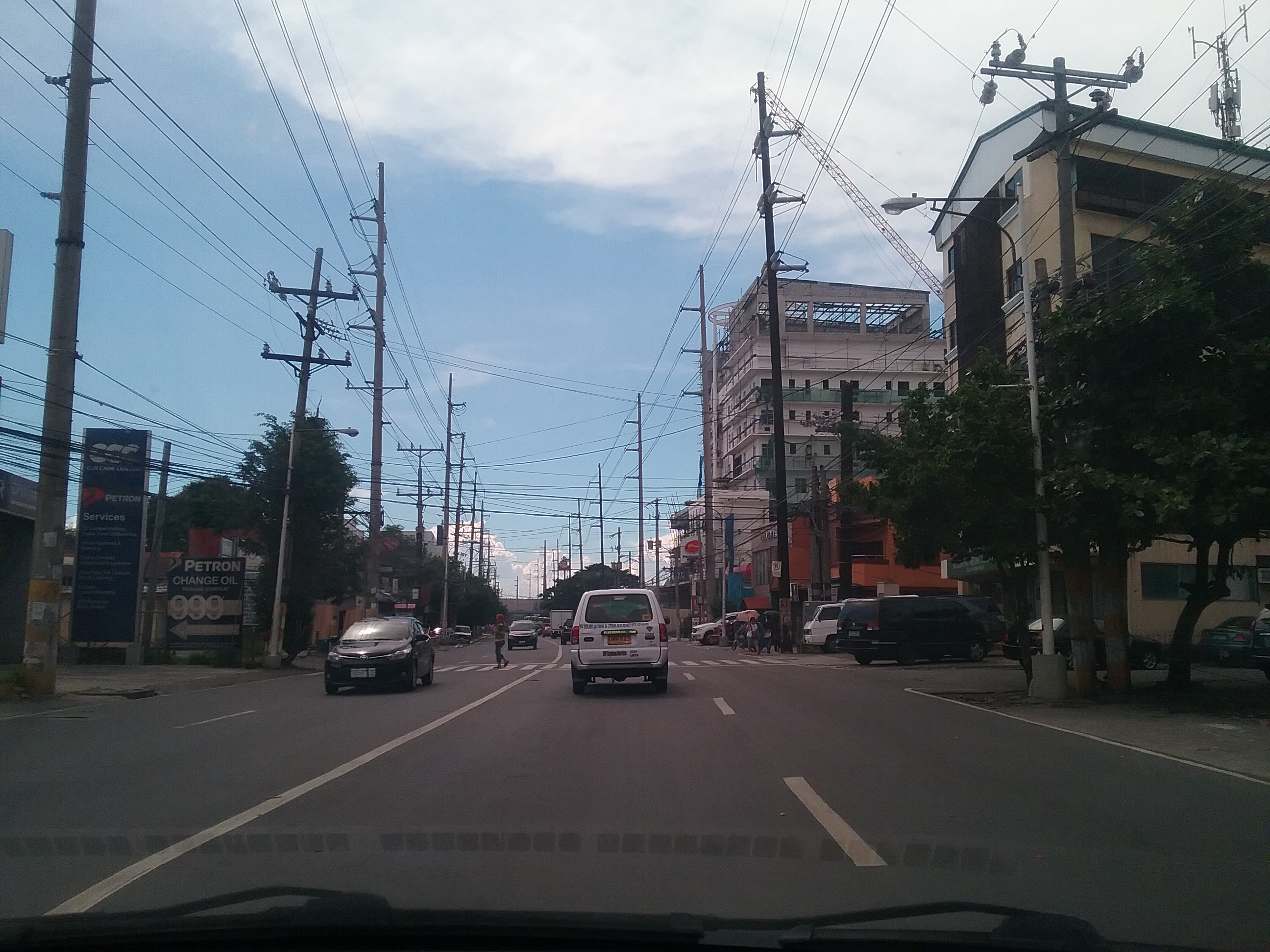 approaching CAA Road